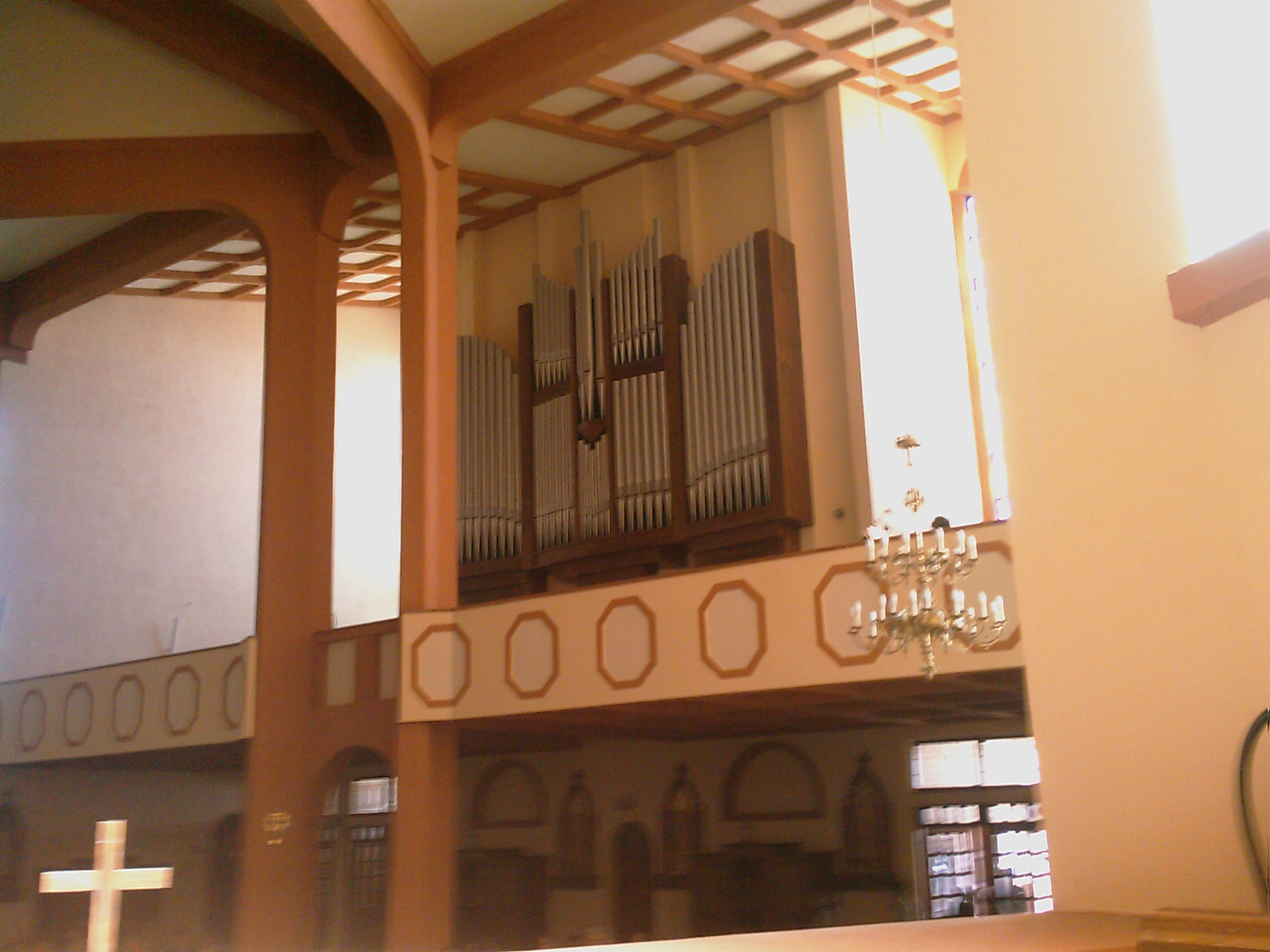 The new organs (bought in August 2010) in Church of Saint Maksymilian Maria Kolbe in Włocławek, Poland